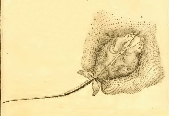 Dasyatis guttata